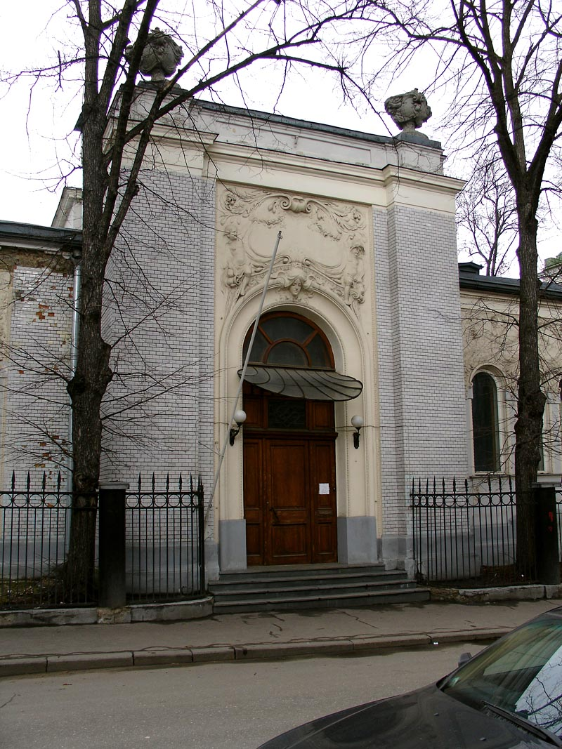 Embassy of Morocco in Russia. Gutheil House, 8 Prechistensky Lane, Moscow, Russia, architect: William Walcot